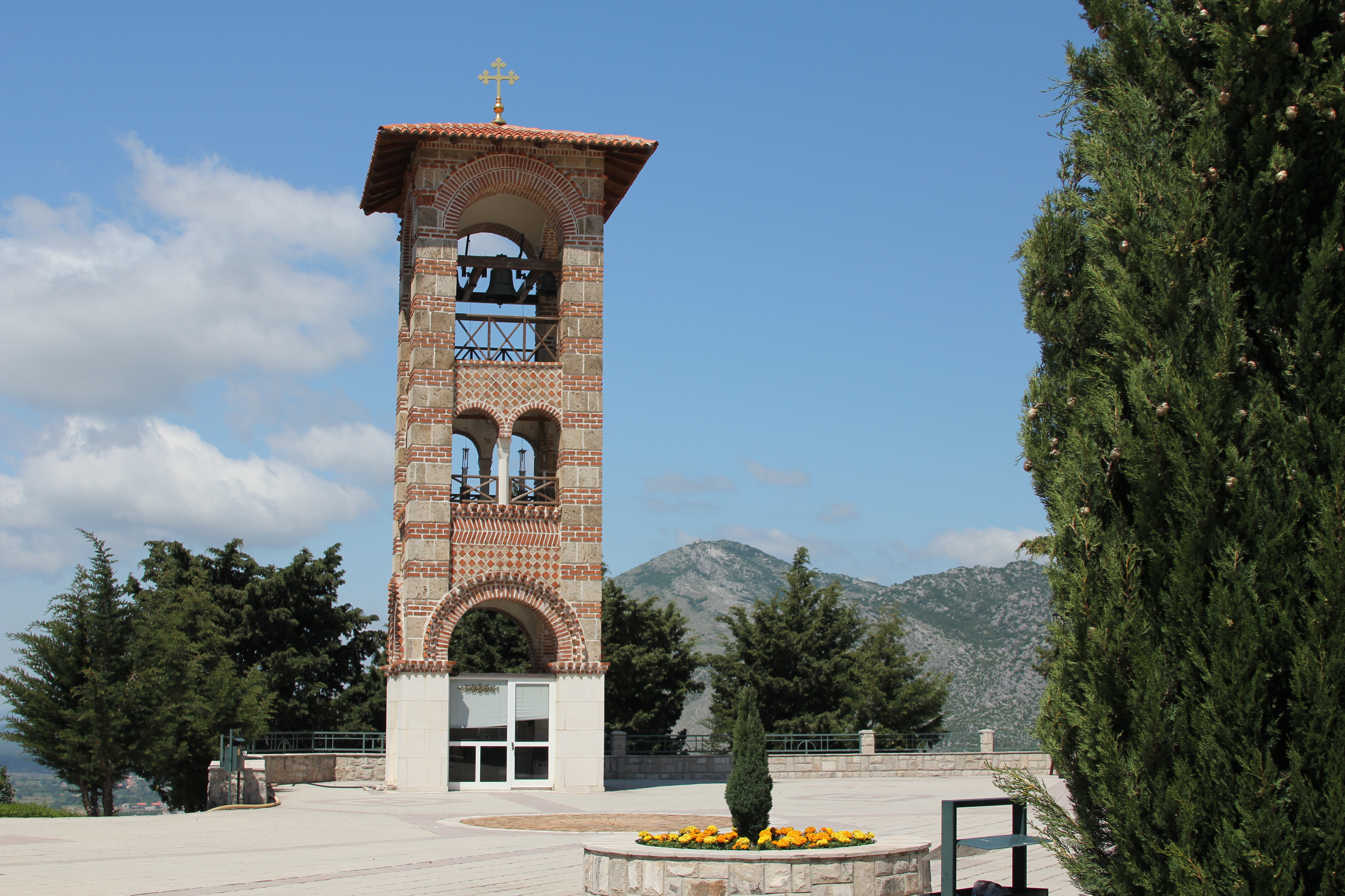 The Church of Holy Annunciation - the bell tower, Trebinje, Republika Srpska, Bosnia and Herzegovina